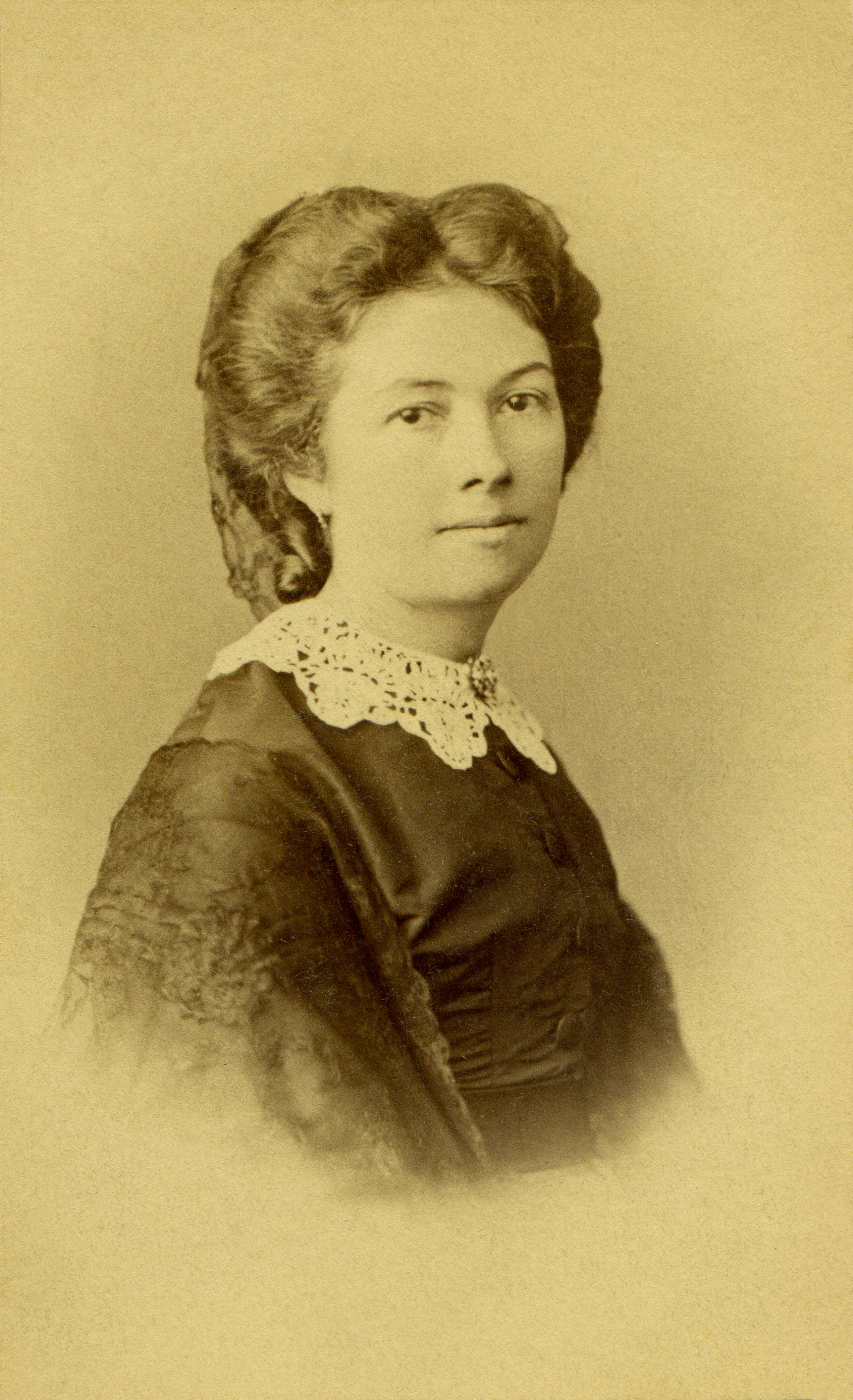 Emma Ostaszewska born Załuska (1831-1912)